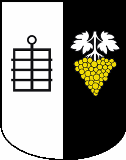 Coat of arms of Warth-Weiningen, Canton of Thurgau, SwitzerlandEsperanto: Blazono de Warth-Weiningen, Kantono Turgovio, Svislando